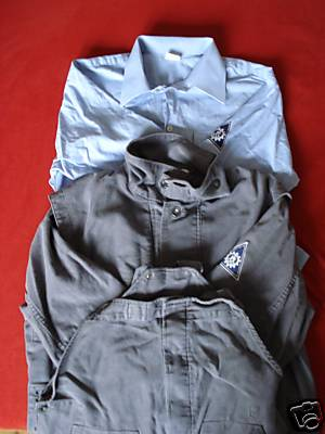 Old garment of the german civil protection organisation THW